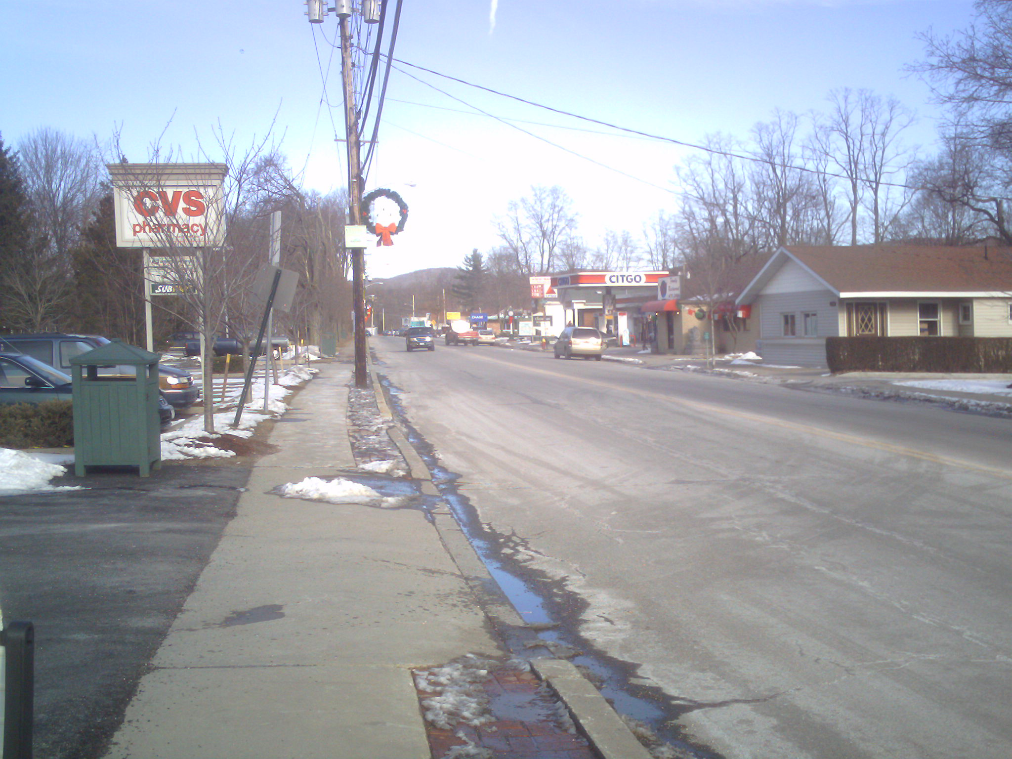 New York State Route 210 heading northbound through Greenwood Lake, New York.